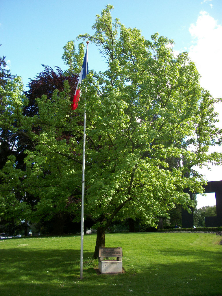 Memorial Albert Michallon in Grenoble, large view